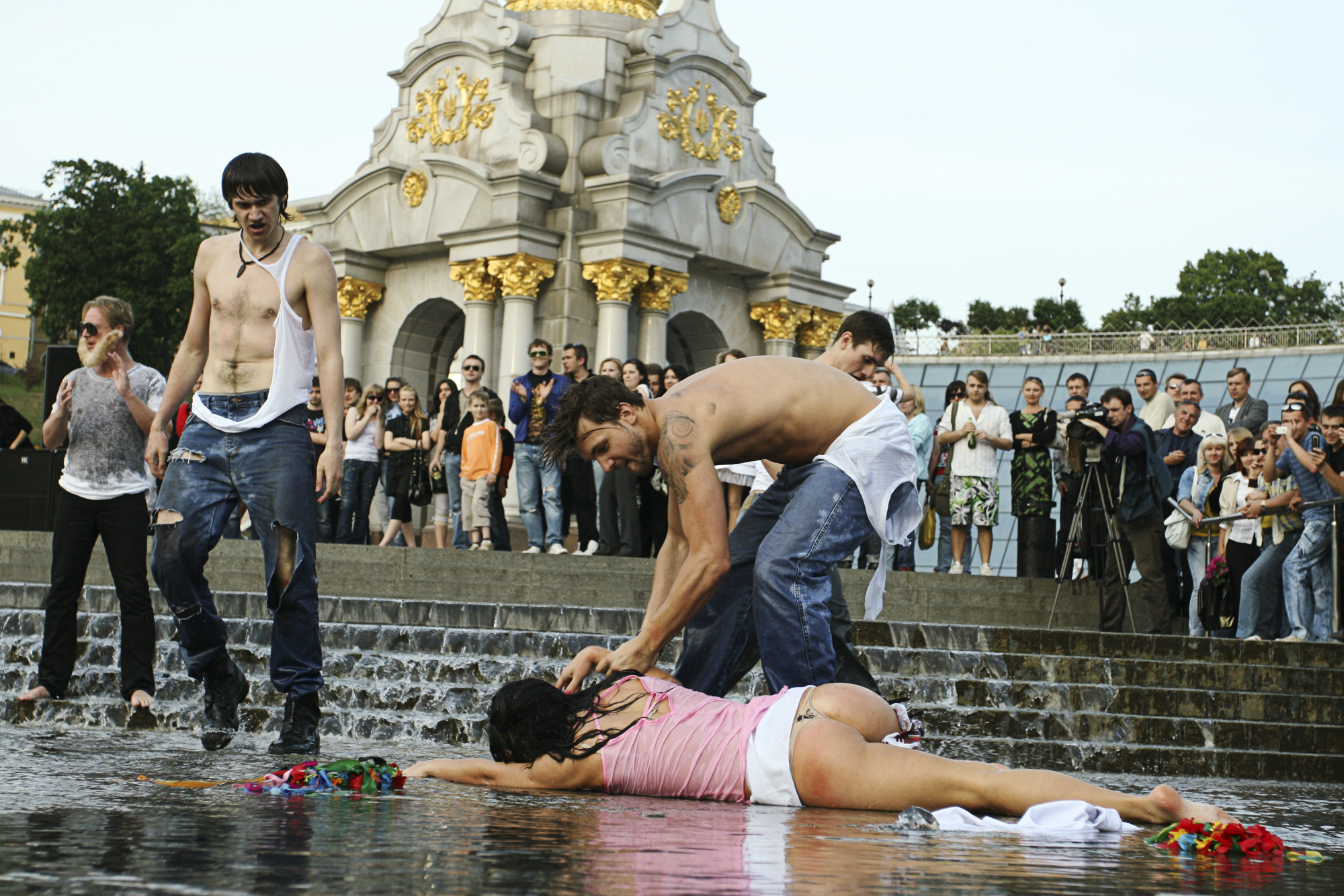 23 May 2009 over 100 FEMEN activists, supported by DJ HELL, German DJ and Music label owner, participated in protest "Ukraine is not a Brothel!" against sex tourism and prostitution at Independence Square, Kiev, Ukraine.